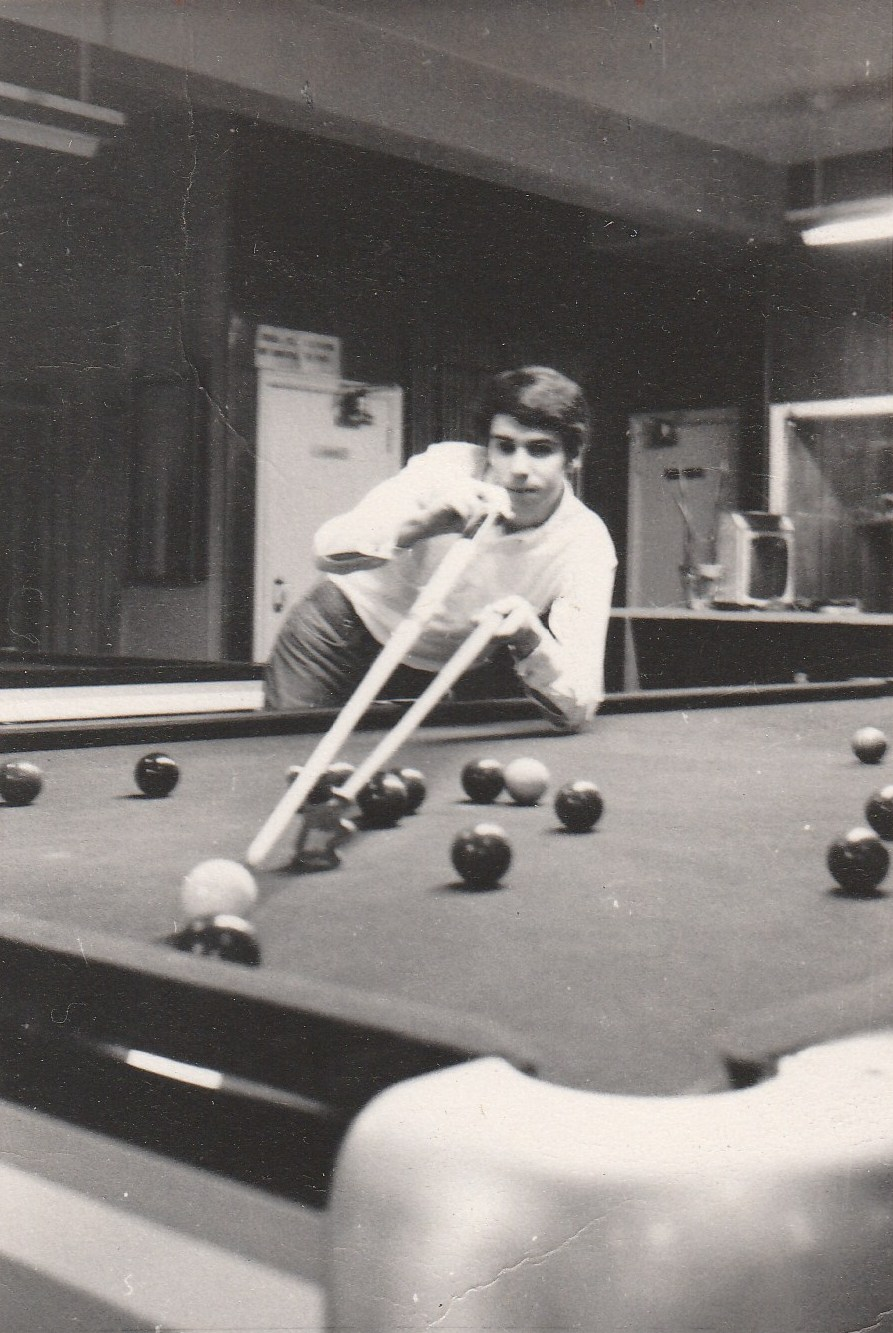 Note for copyright purposes, this photo was taken by Dave Bradley, an employee of and photographer hired by Michael Laucke. It is a work for hire, owned and paid for by Michael Laucke. It is hereby license under Public Domain Dedication (CC0); ALL RIGHTS WAIVED! Nevertheless, if you use this photo, you must use the correct attribution, which is at least: Laucke in competition against Georges Chenier